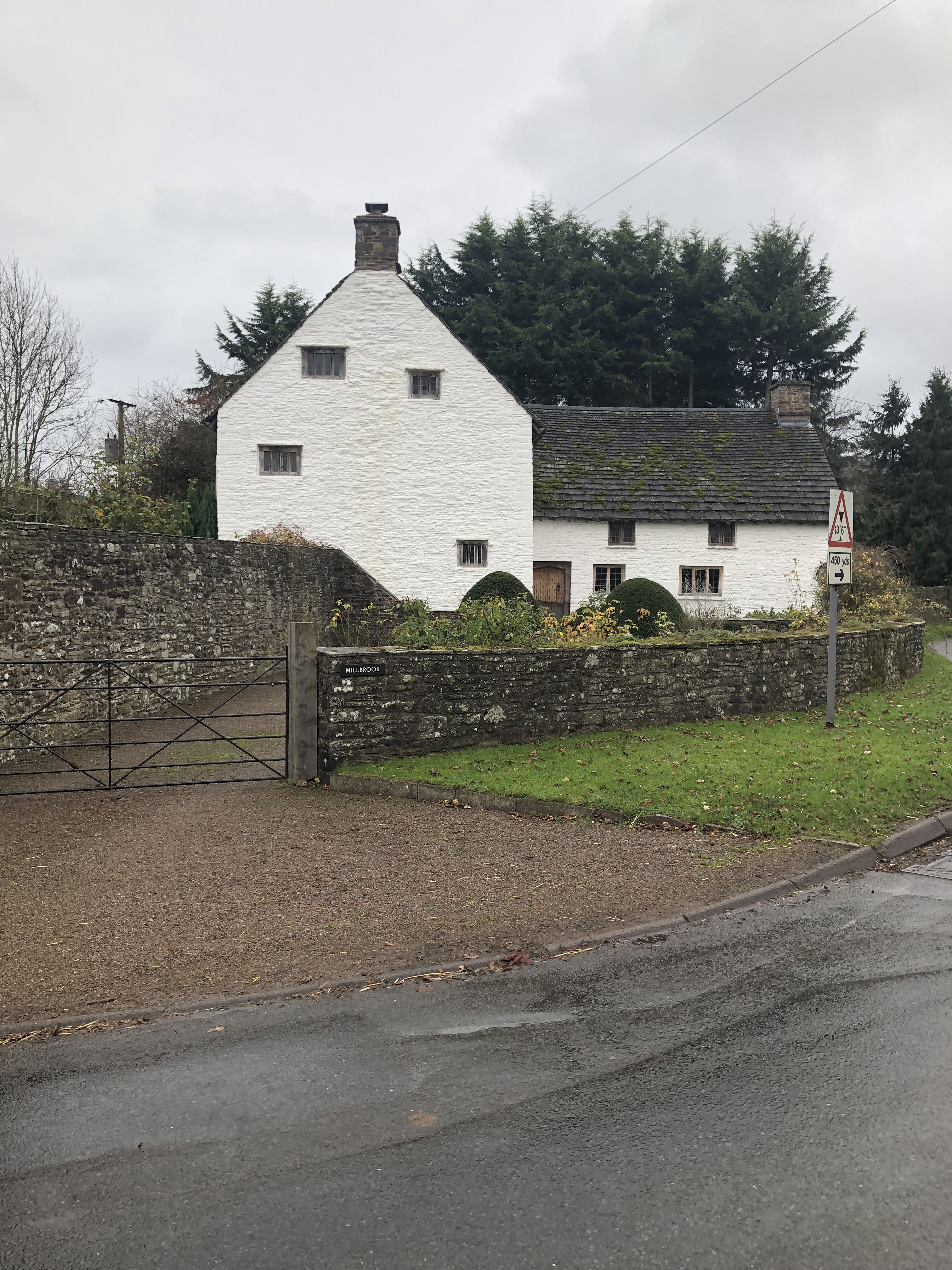 Milbrook, Llanvihangel Crucorney